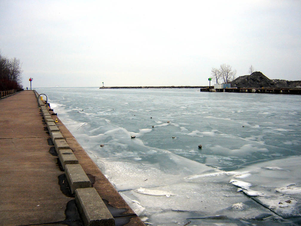 Huron River Frozen 01-30-08. Looking North at Lake Erie. Floating rocks are fom fishermen trying to bust hole in ice to fish from bank. 28F, Huron (Ohio).